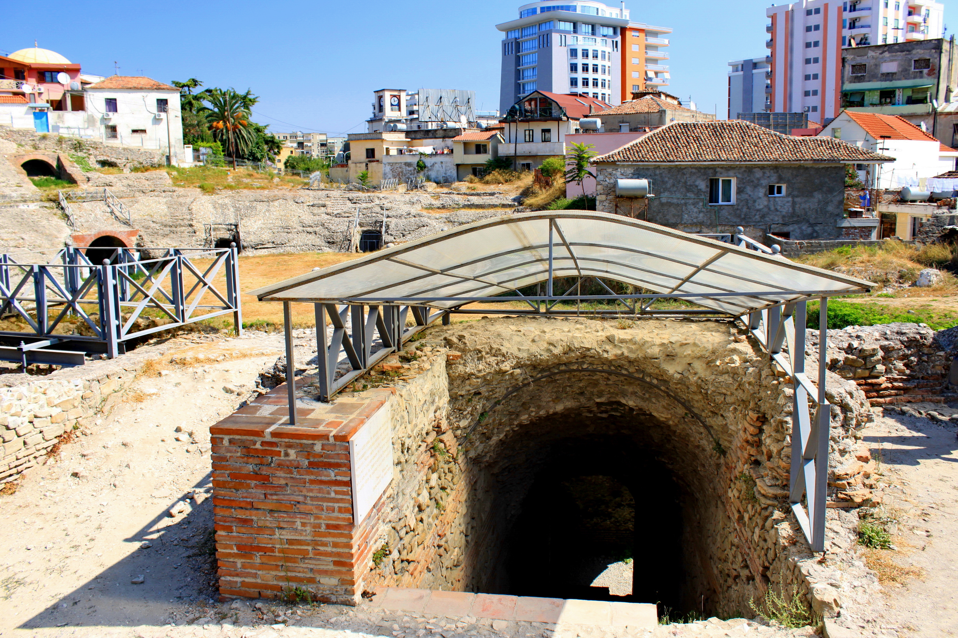 Durrës Amphitheatre